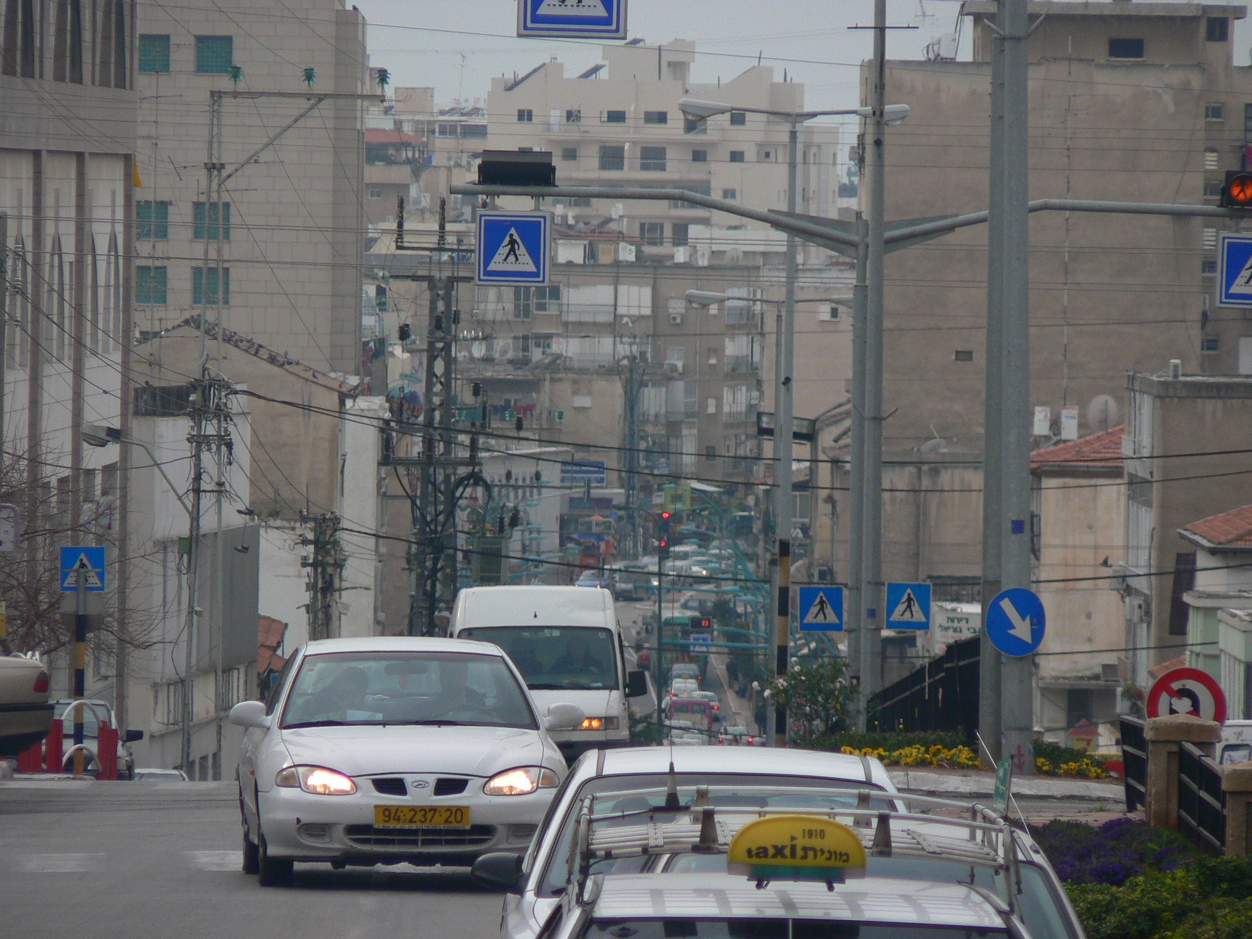 Rishon LeZion, Kikar HaMeyasdim and Rotschild street, look toward west